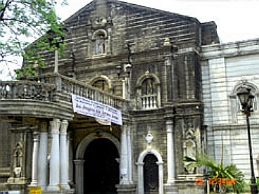 Meycauayan church.